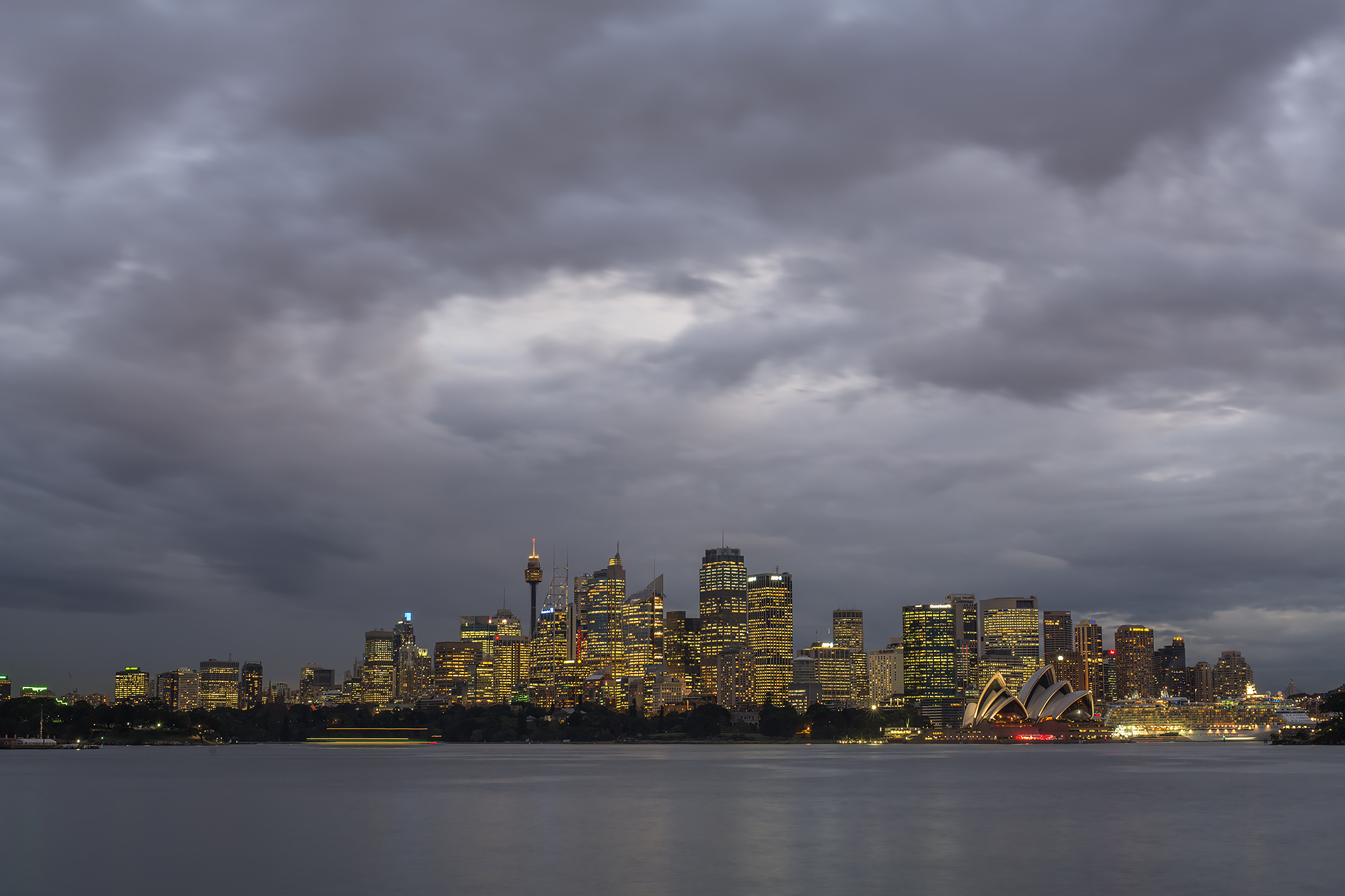 A view of Sydney Harbour taken at dusk from Cremorne Point